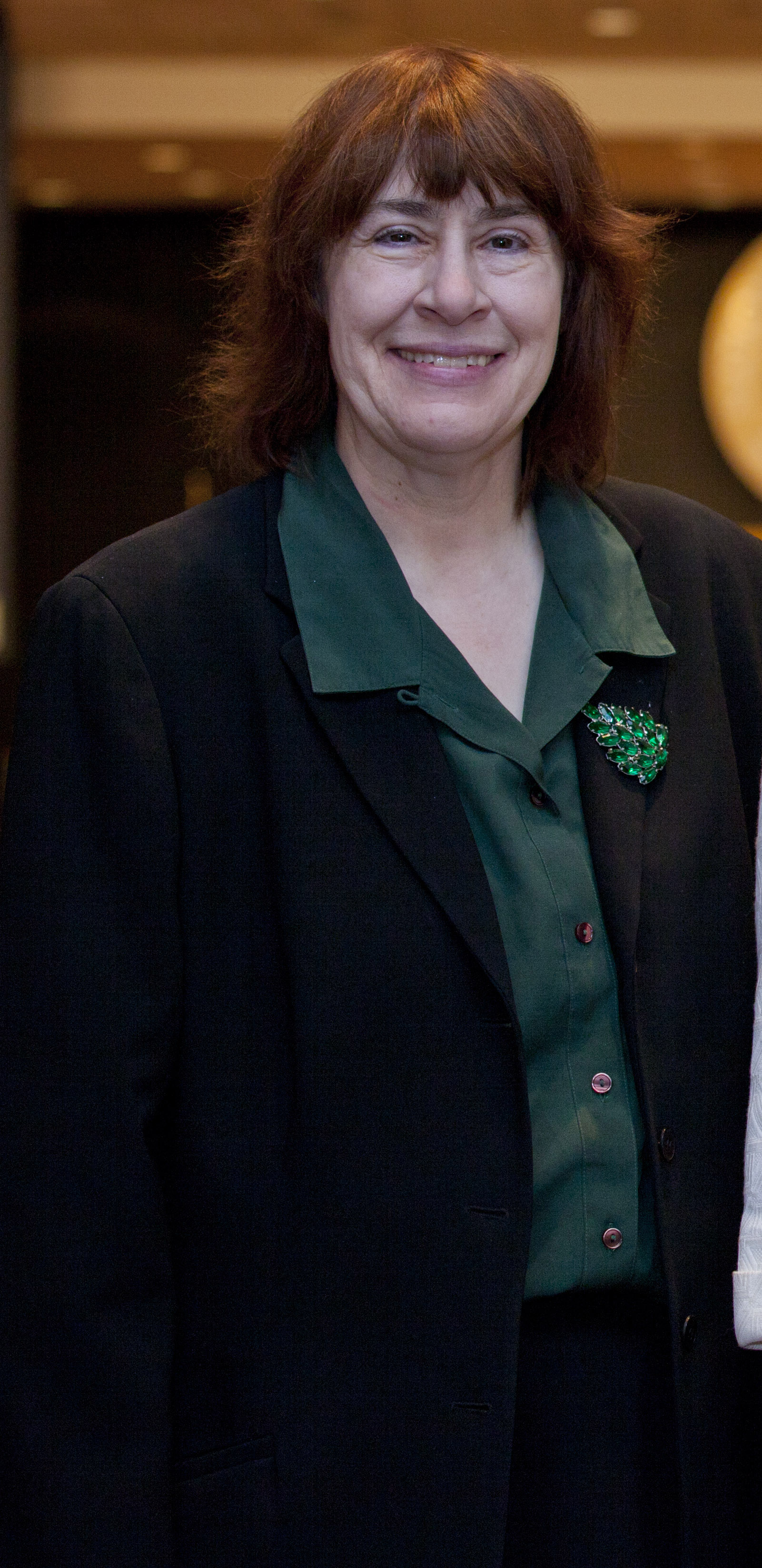 Janice L. Pauls, Kansas House of Representatives; Chairman Debbie Hersman; Mayor Arlene J. Mulder, Arlingtion Heights, Illinois